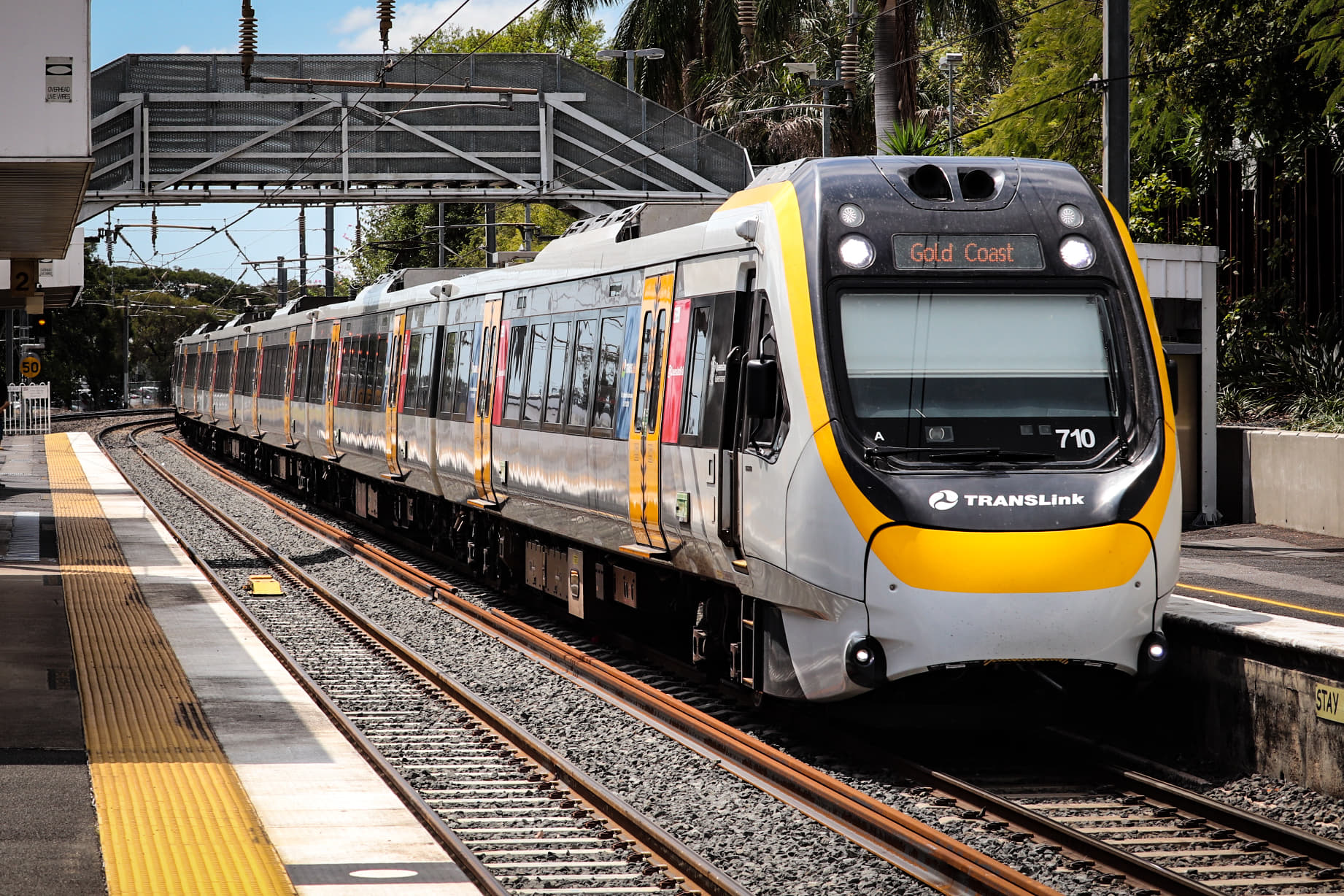 New Generation Rollingstock 710